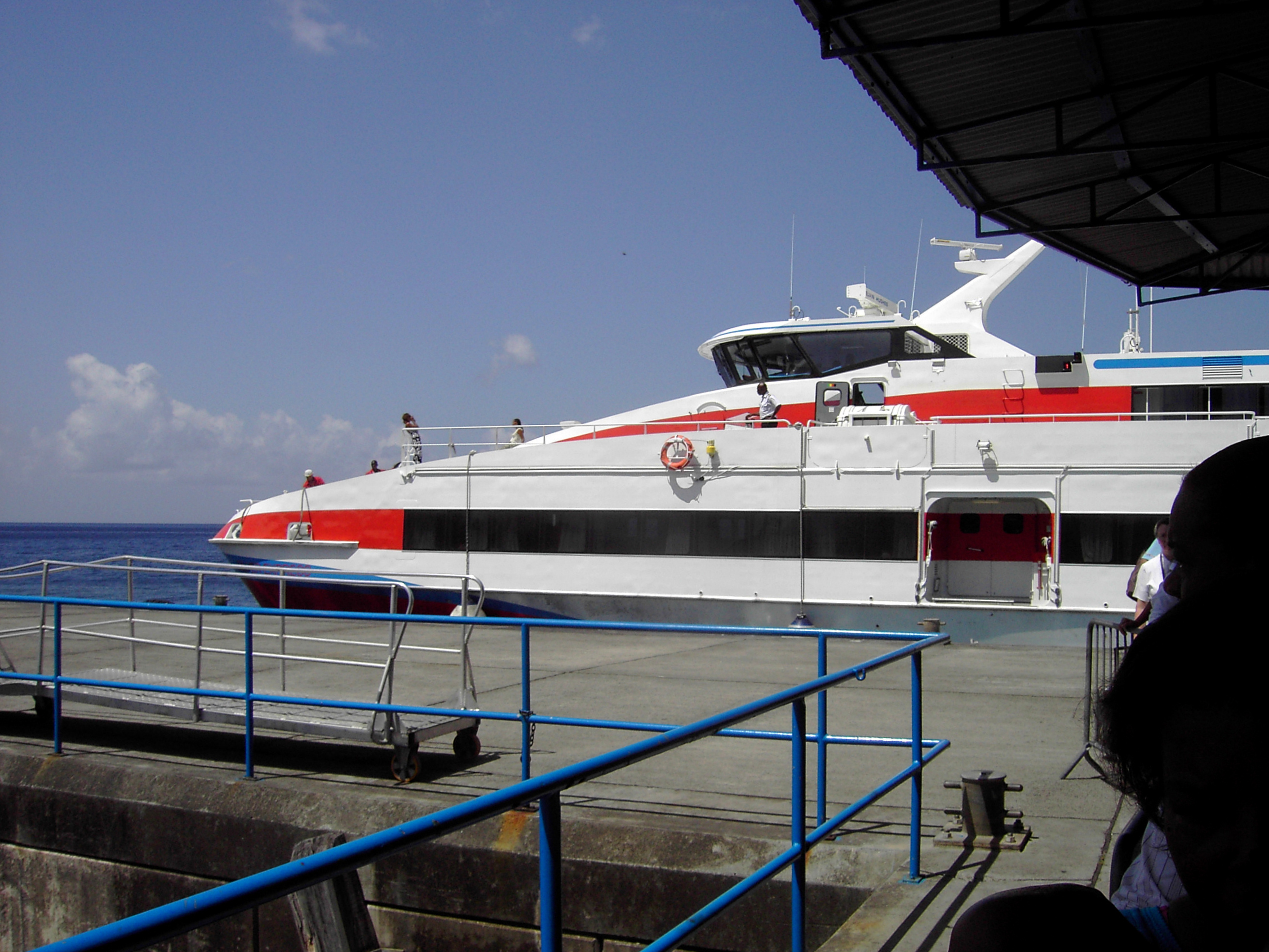 Ferry from Express des Isles, arriving from Guadeloupe in Roseau, Dominica, W.I.